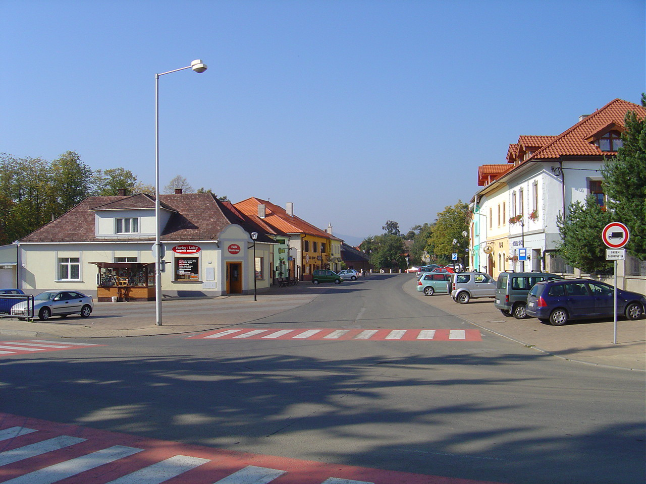 Square of Velka